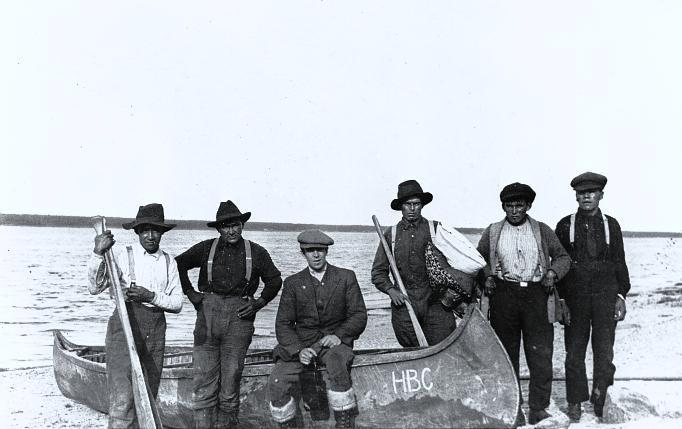 Photograph, Group with Hudson's Bay Company canoe at Waskaganish (Rupert House), QC, 1921(?), Captain George E. Mack, Silver salts on paper mounted on paper - Gelatin silver process - 7 x 13 cm